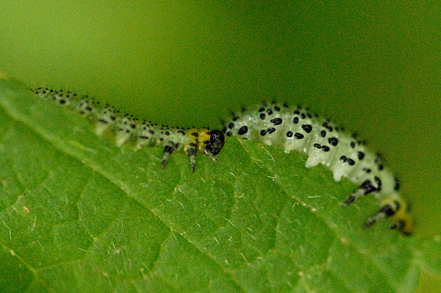 Nematus ribesii from Commanster, Belgian High Ardennes .